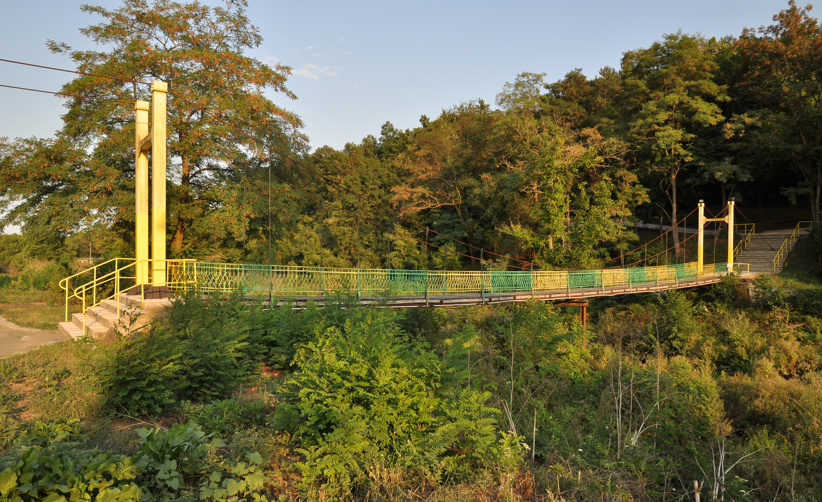 Suspension bridge in the village of Novo Panicharevo, Burgas Province, Bulgaria.